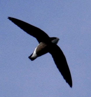 White-throated Needletail (Hirundapus caudacutus)